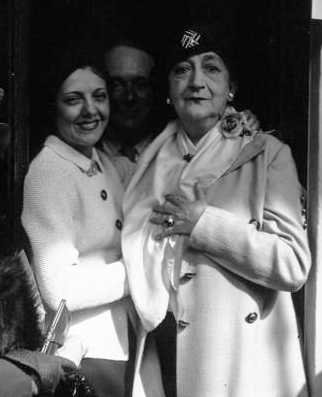 French actresses Suzy Vernon (1901-1997) and Marguerite Moreno (1871-1948).